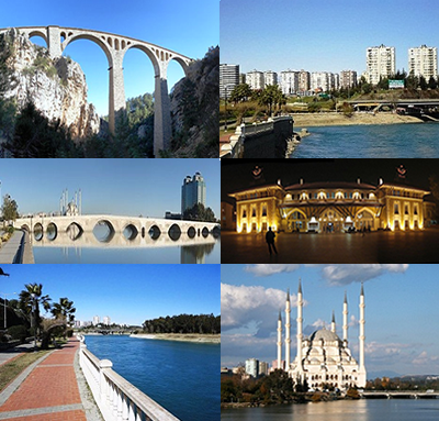 Collage of Adana